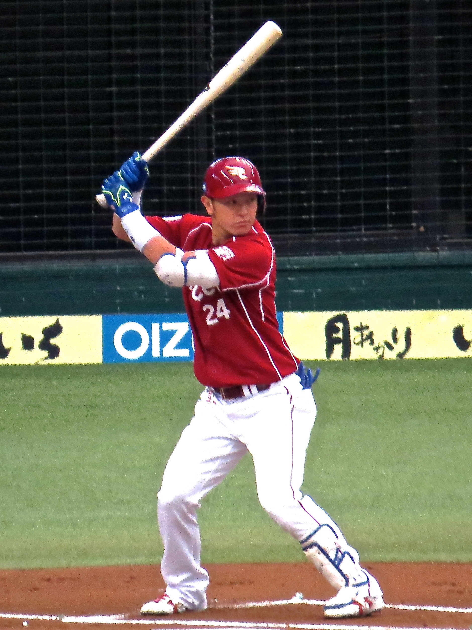 Masayoshi Fukuda, outfielder of the Tohoku Rakuten Golden Eagles, at Seibu Dome.